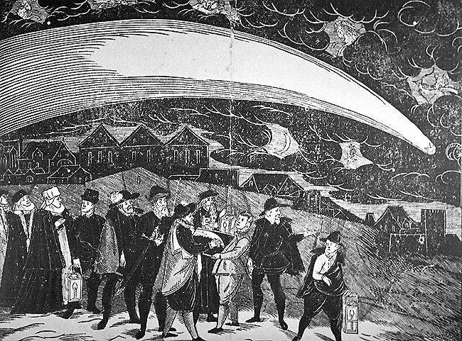 About a terrible and marvelous comet as appeared the Tuesday after St. Martin's Day (1577-11-12) on heaven. (Written by Peter Codicillus of Tulechova)